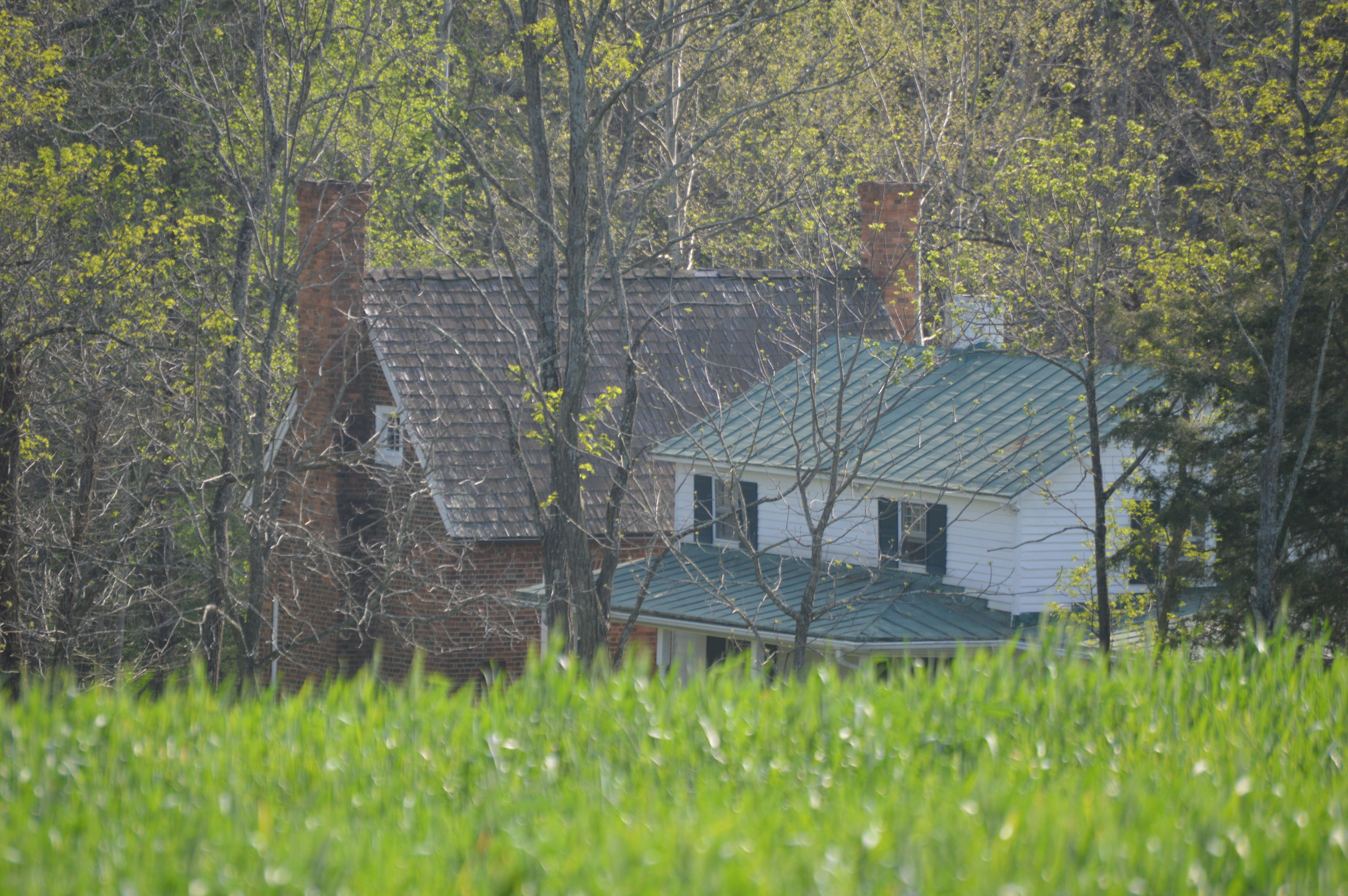 Northern side and front of the Phillip Craft House, located at 1381 Old Red Eye Road just east of Redeye in Pittsylvania County, Virginia, United States. Built in 1819 (brick section) and expanded in the early twentieth century (wooden section), it is listed on the National Register of Historic Places. Two days after this photo was taken, the house was largely destroyed by fire.